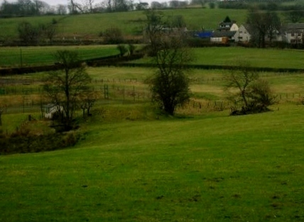 The Court Hill of Beith from the site of Hill of Beith Castle, Beith, North Ayrshire, Scotland.